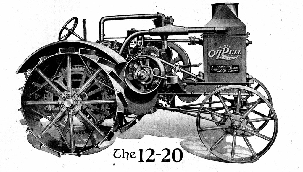 Advance-Rumely OilPull 12-20 tractor as advertised in the May 3, 1919 issue of Country Gentleman. The tractor was manufactured in La Porte, Indiana, USA.